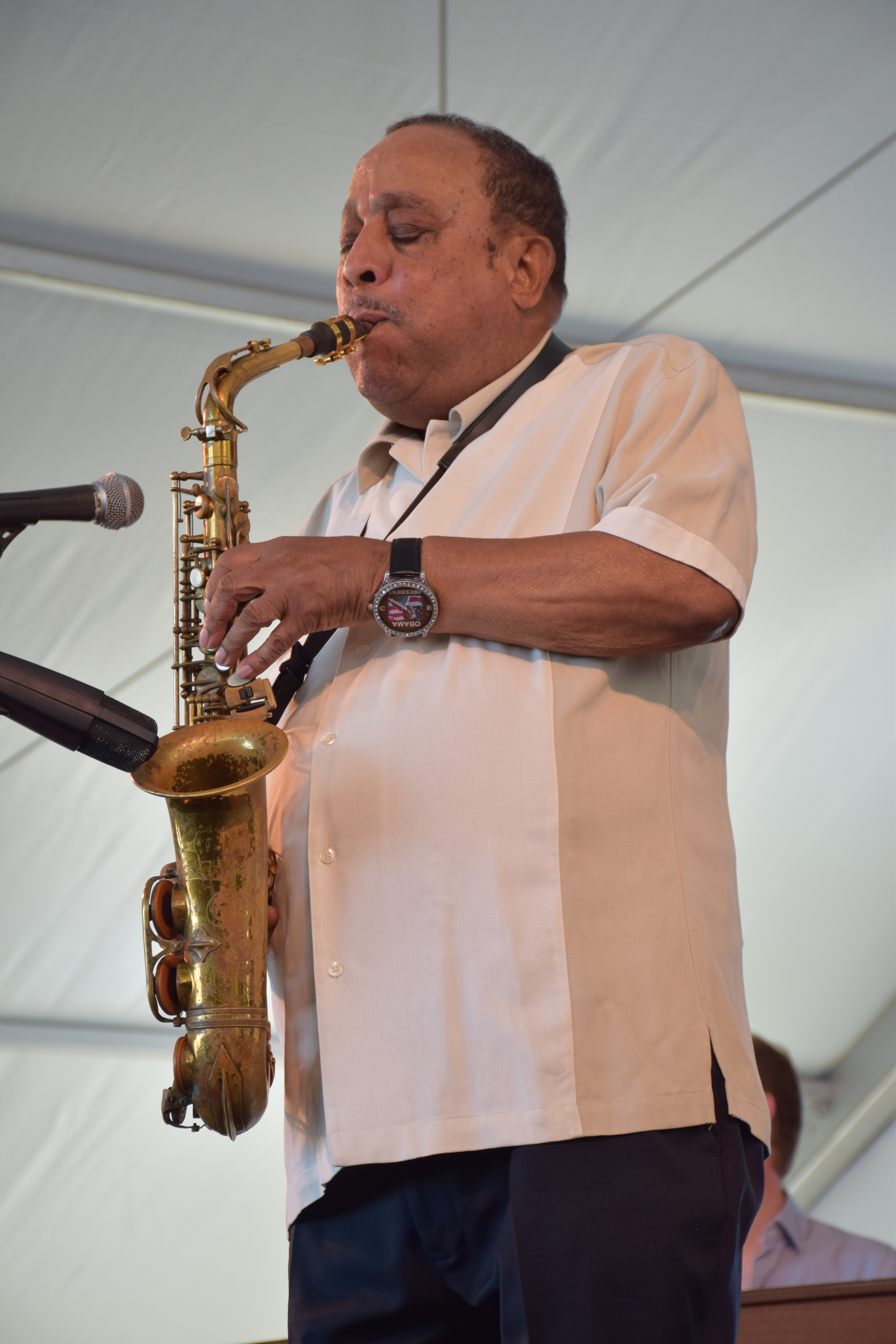 I'm able to share my Jazz Diplomacy experience at Newport Jazz Festival as a guest of Natixis Global Asset Management.